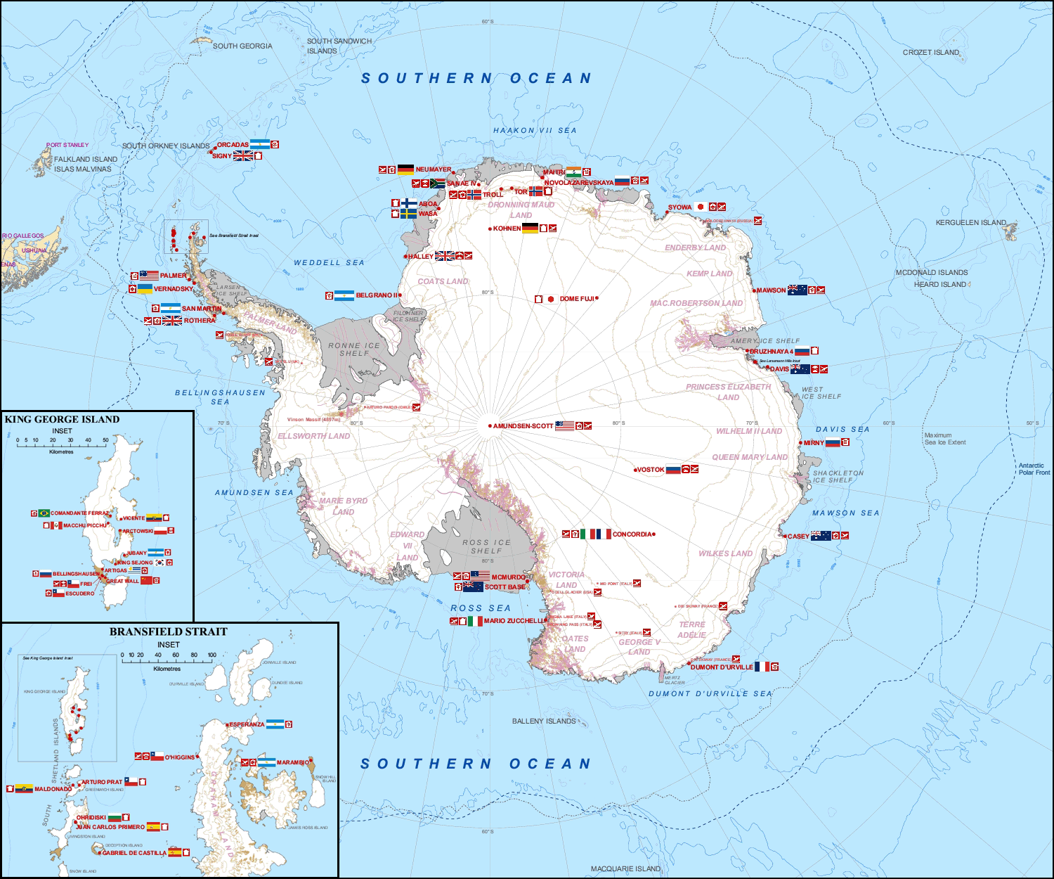 PDF version at